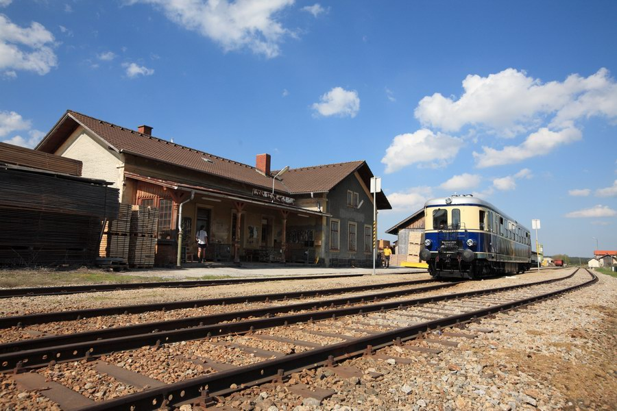 Train Station Martinsberg-Gutenbrunn with diesel unit ÖBB 5042.14, Lower Austria, Austria